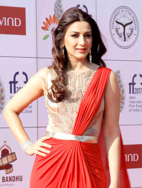 Sonali Bendre graces closing ceremony of IFFI 2017 in Goa